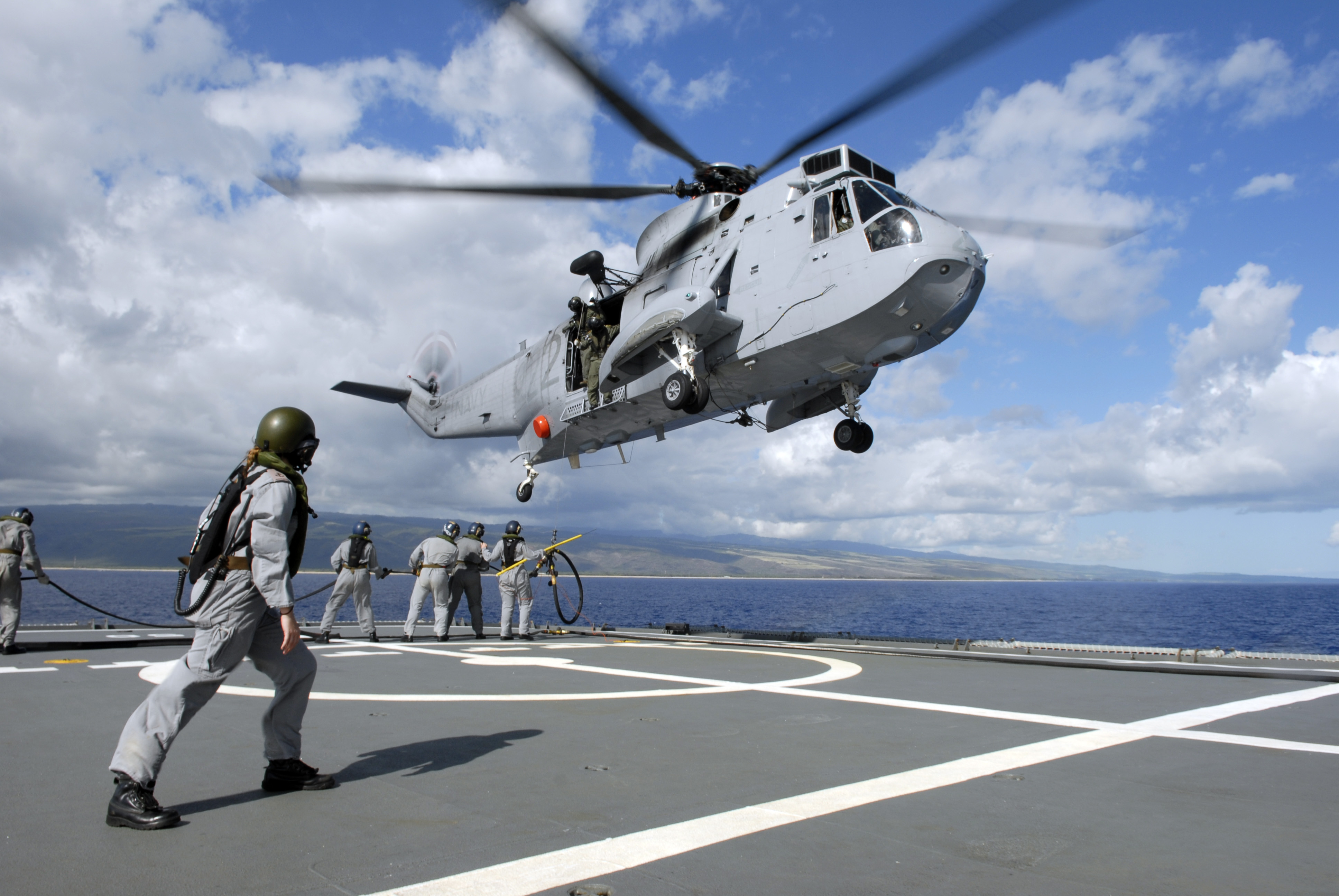 080713-N-9671T-059 PACIFIC OCEAN (July 13, 2008) Royal Australian Navy Sailors prepare to conduct a Helicopter In Flight Refuel (HIFR) exercise with an RAN Mk50B Sea King aboard Her Majesty's Australian amphibious ship HMAS Tobruk (LSH 50) off the coast of Kauai during Rim of the Pacific (RIMPAC) 2008. RIMPAC is the world's largest multinational exercise and is scheduled biennially by the U.S. Pacific Fleet. Participants include the U.S., Australia, Canada, Chile, Japan, Netherlands, Peru, Republic of Korea, Singapore and the United Kingdom. (U.S. Navy photo by Mass Communication Specialist 2nd Class Kenneth G. Takada/Released)